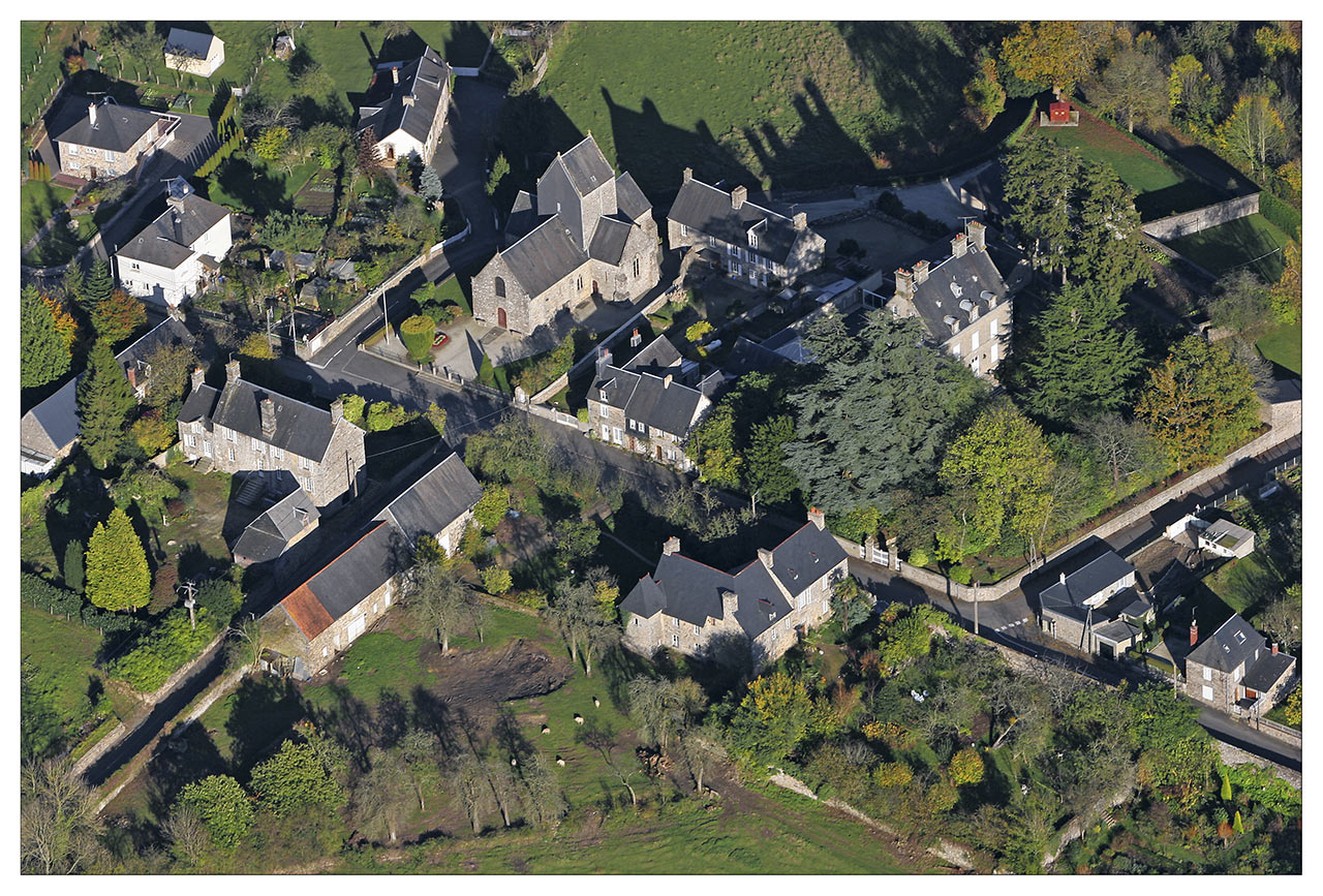 Vue aérienne de l'église du Neufbourg, Manche, Normandie, France, Europe.